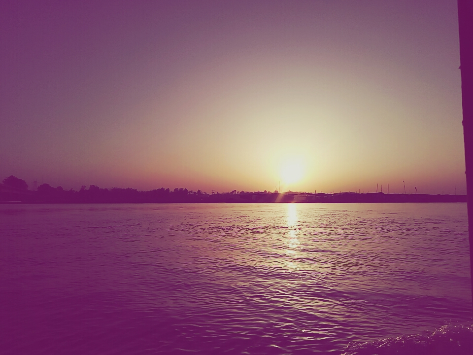 This pic was taken by me when i was in the boat in garhmukteshwar for bathing in the holy water of ganga river